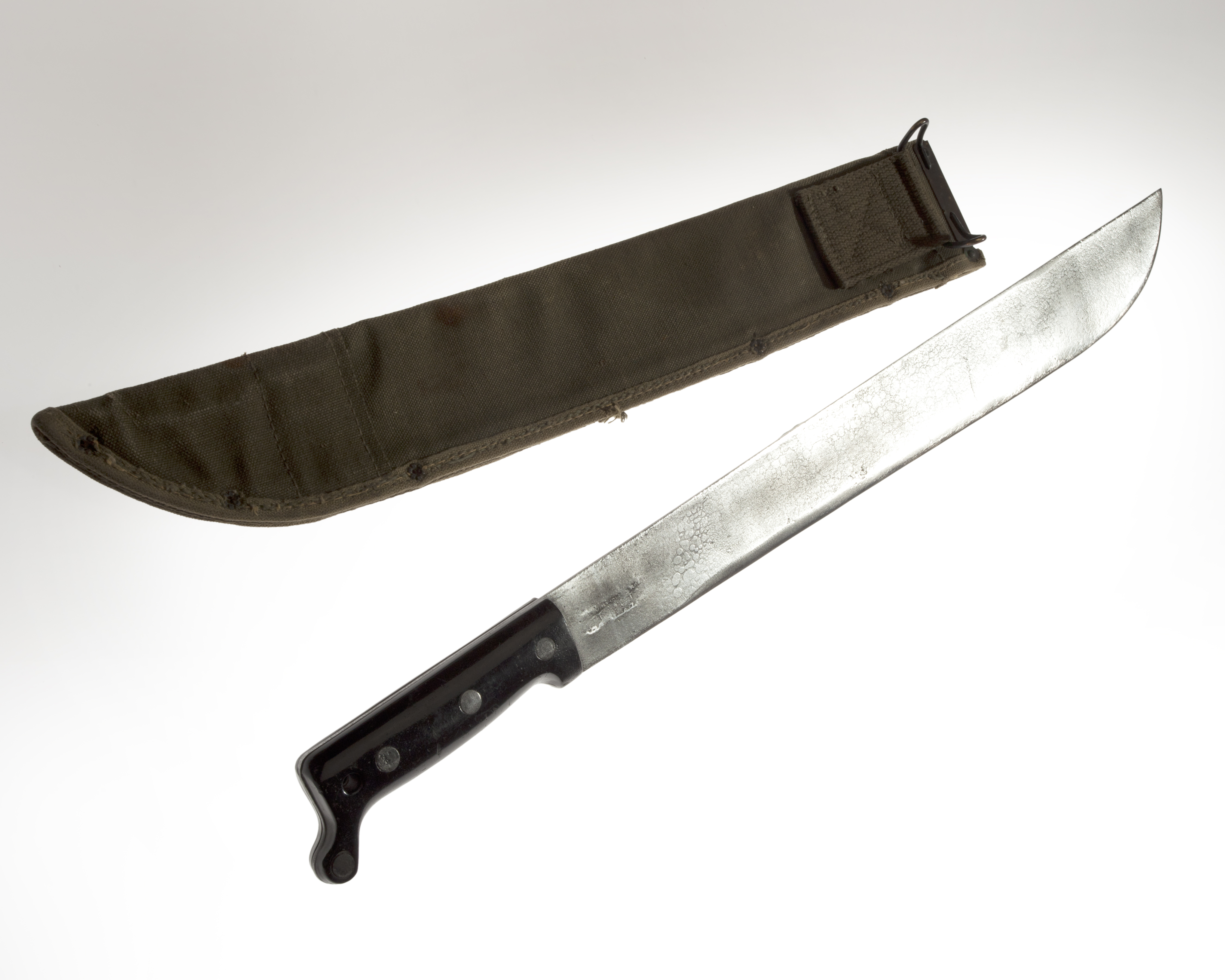 One of the most famous knife types in the world, the machete was quite capable of cutting its way through the dense jungles of Burma. Its lengthy blade could also deliver a devastating blow to an enemy. OSS acquired machetes with blades between 18 and 22 inches long. For more information on CIA history and this painting please visit